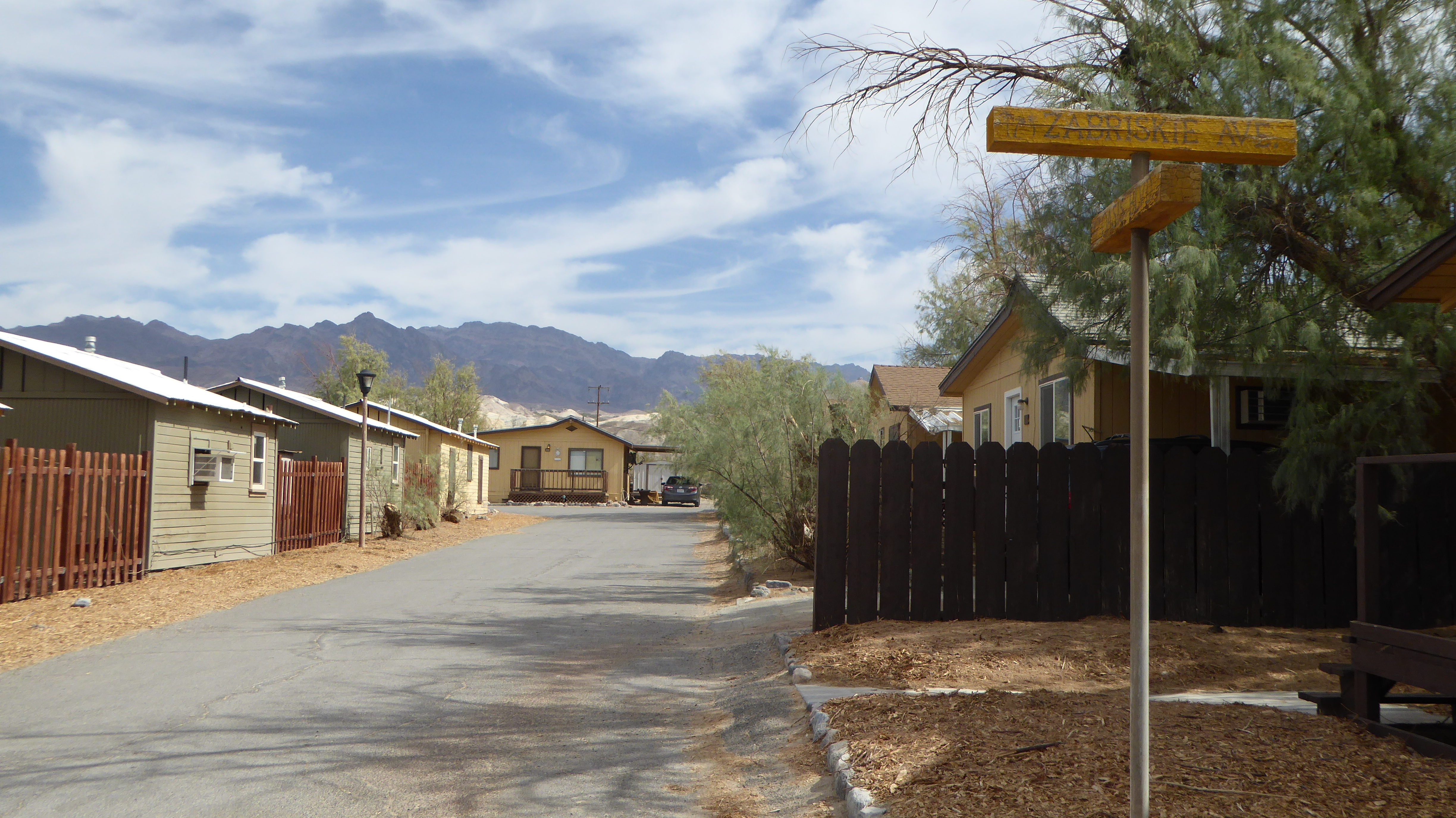 Furnace Creek Ranch Resort, Furnace Creek, California.